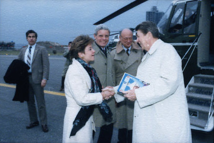 President Ronald Reagan, Jack Kemp, William Casey, John Herrington, and Lois Herrington (2-4) Trip to New York, flying aboard Air Force One President Ronald Reagan, Ed Koch, Edward (Ned) Regan, Susan Molinari, and Nancy Reagan, (Not in all Photos) (5-13) Trip to New York, arrival on helicopter Marine One President Ronald Reagan (14-27) Trip to New York, talking on the telephone with E Gino Casanova, a Vietnam Veteran from Seattle who has fasted for 51 days on behalf of United States servicement Missing in Action MIA in Vietnam